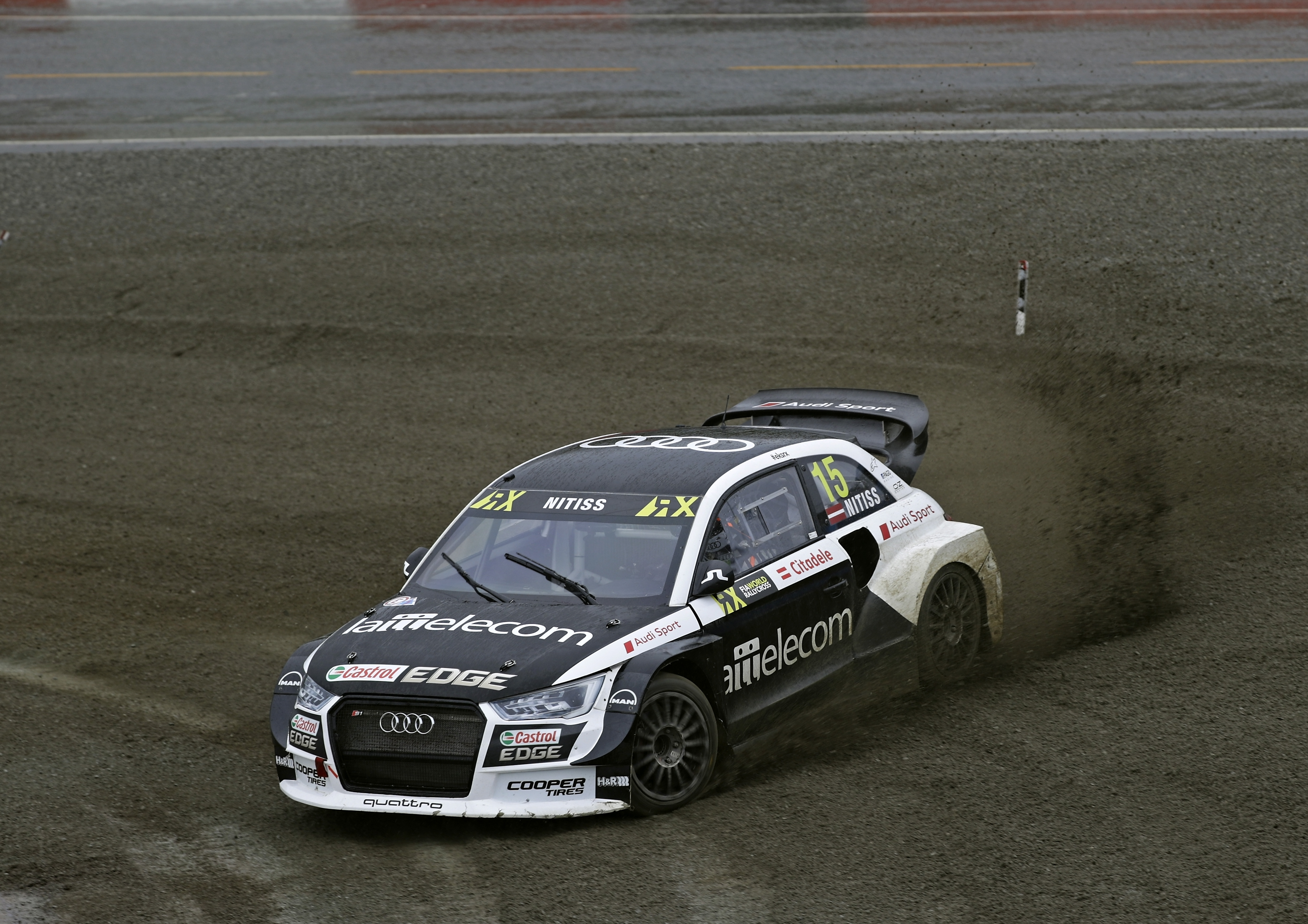 2017 FIA World Rallycross Championship // Round 06, Hell // Credit: EKS/Bodo Kräling